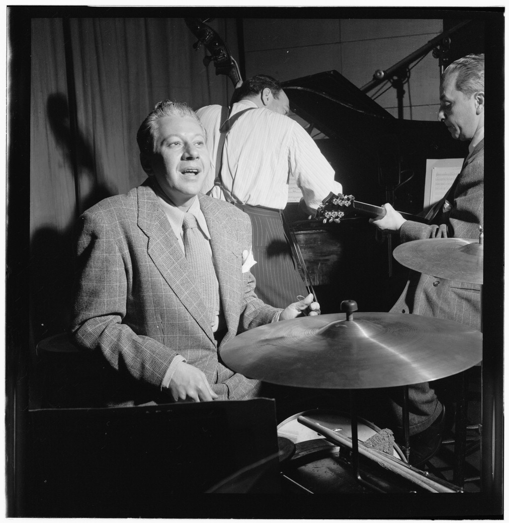 Gottlieb, William P., 1917-, photographer. [Portrait of George Wettling, Museum of Modern Music program, ABC studio, New York, N.Y., ca. May 1947] 1 negative : b&w ; 2 1/4 x 2 1/4 in. Notes: Gottlieb Collection Assignment No. 094 Reference print available in Music Division, Library of Congress. Purchase William P. Gottlieb Forms part of: William P. Gottlieb Collection (Library of Congress). In: "Posin'," Down Beat, v. 14, no. 10 (May 7, 1947), p. 4. Subjects: Wettling, George, 1907-1968 Jazz musicians--1940-1950. Drummers (Musicians)--1940-1950. ABC studio Format: Portrait photographs--1940-1950. Group portraits--1940-1950. Film negatives--1940-1950. Rights Info: Mr. Gottlieb has dedicated these works to the public domain, but rights of privacy and publicity may apply. Repository: (negative) Library of Congress, Prints & Photographs Division, Washington D.C. 20540 USA, (reference print) Library of Congress, Music Division, Washington D.C. 20540 USA, Part Of: William P. Gottlieb Collection (DLC) 99-401005 General information about the Gottlieb Collection is available at Persistent URL: Call Number: LC-GLB23- 0907 This work is from the William P. Gottlieb collection at the Library of Congress. Rights and restrictions. In accordance with the wishes of William Gottlieb, the photographs in this collection entered into the public domain on February 16, 2010.